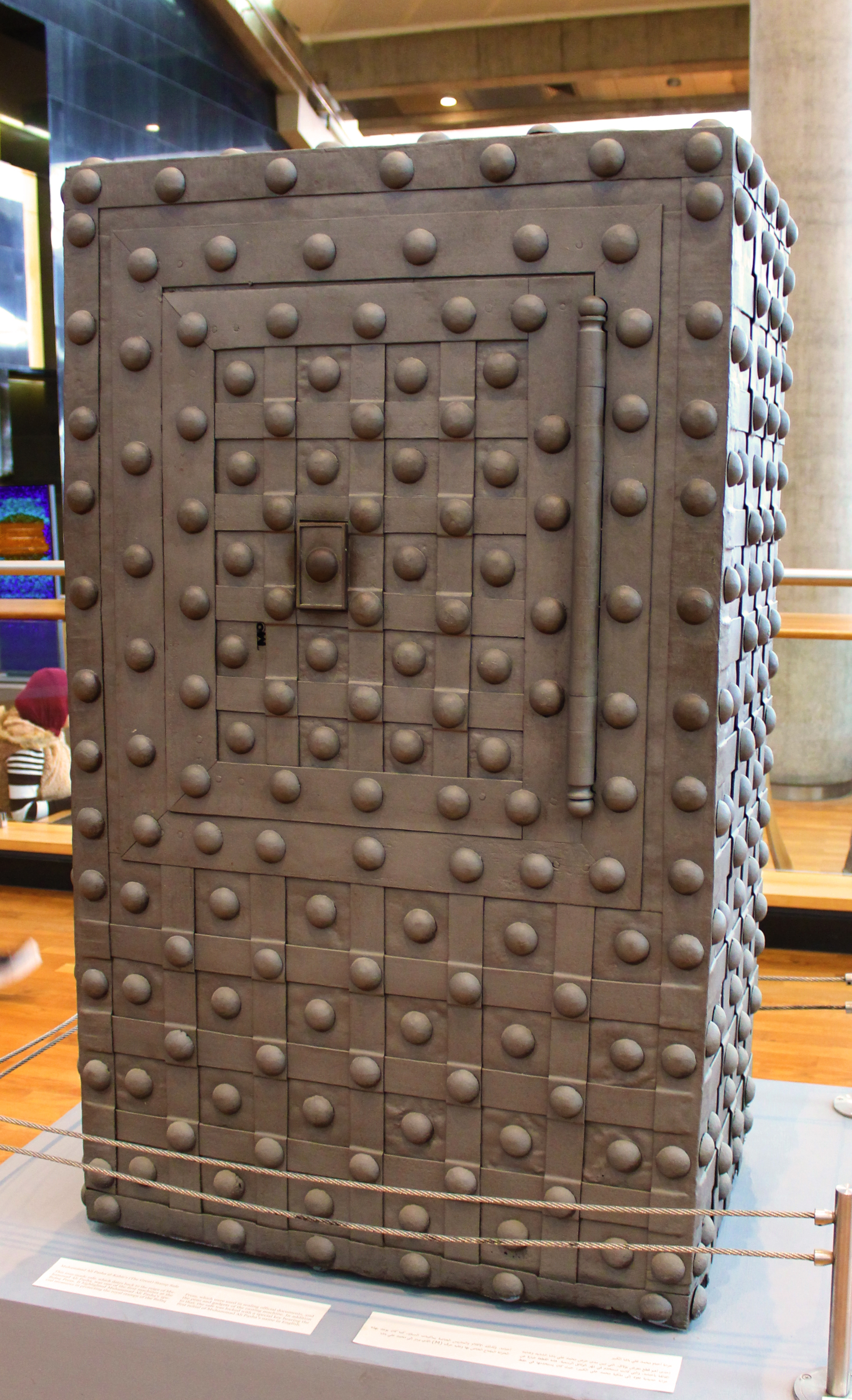 Seals treasury for Muhammad Ali Pasha in Bibliotheca Alexandrina